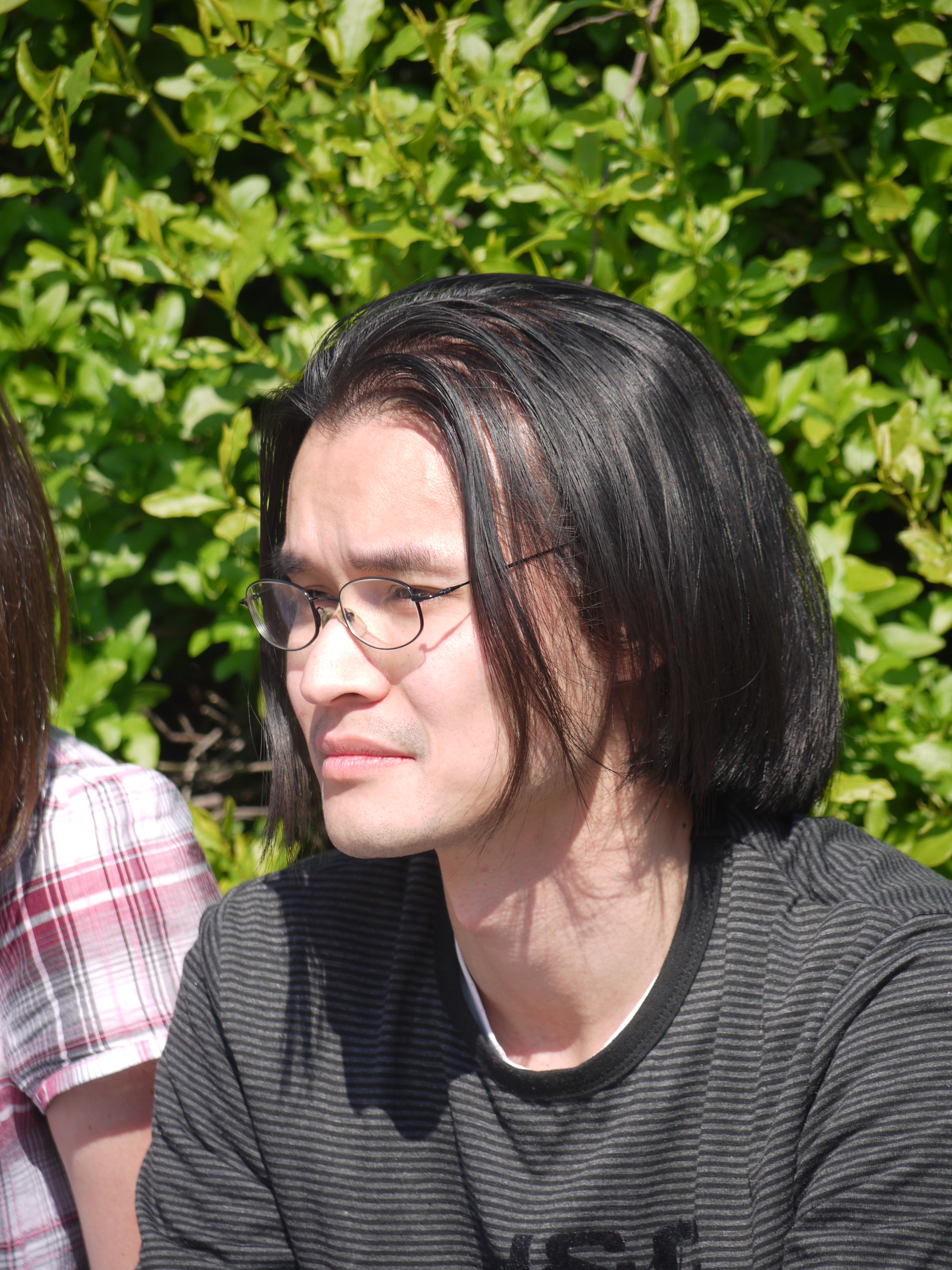 Go Play One 2010